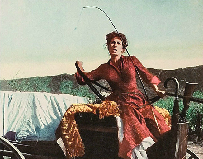 Photo from the 1961 film ‘’The Deadly Companions’’. Pictured are Maureen O’Hara and Brian Keith.